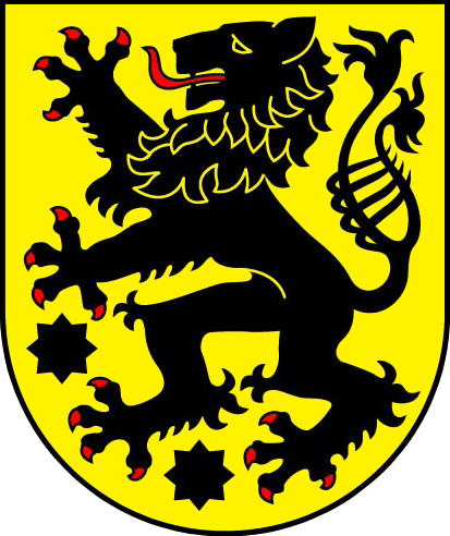 Coat of Arms of Sonneberg